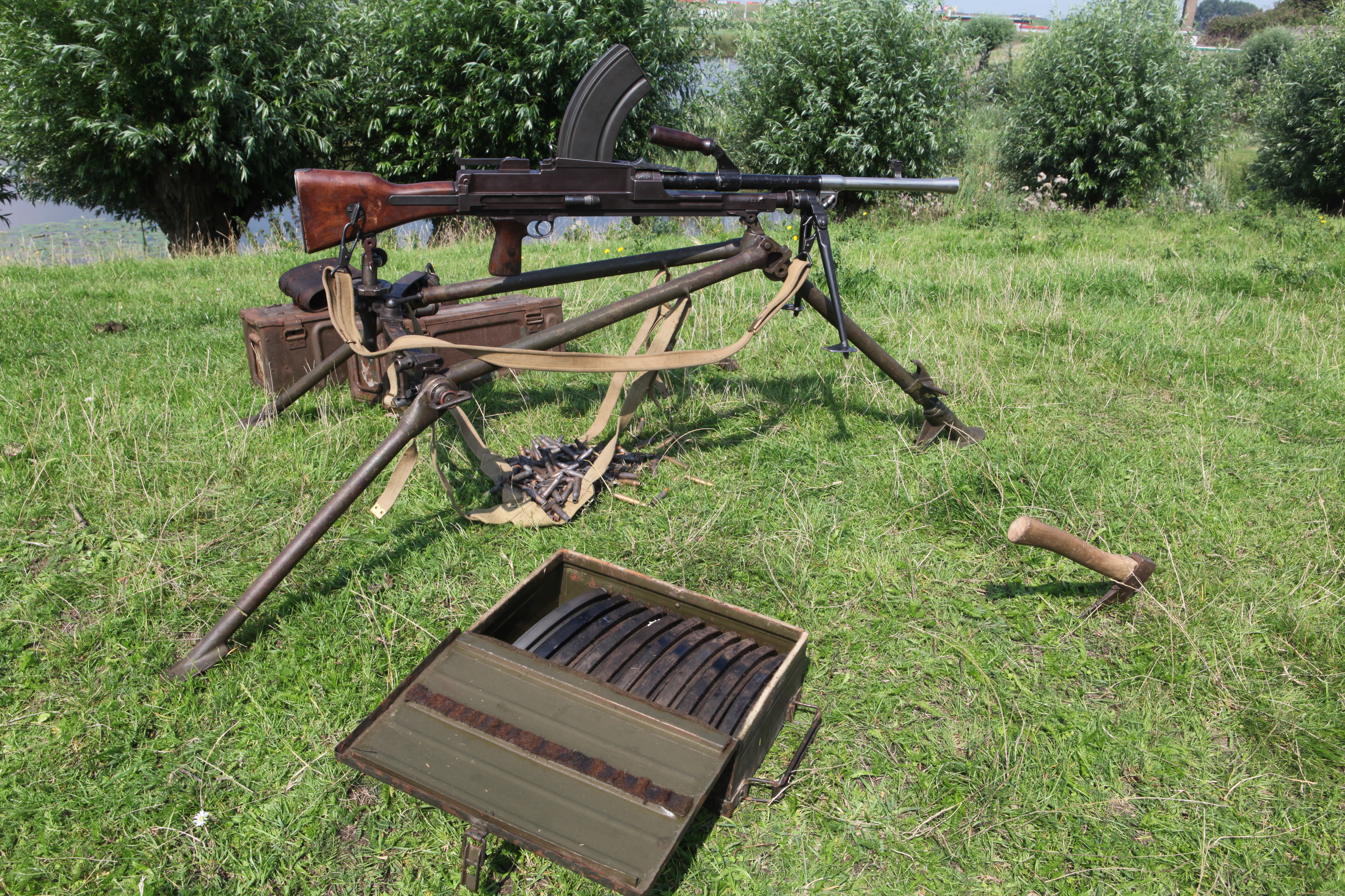 from 1944